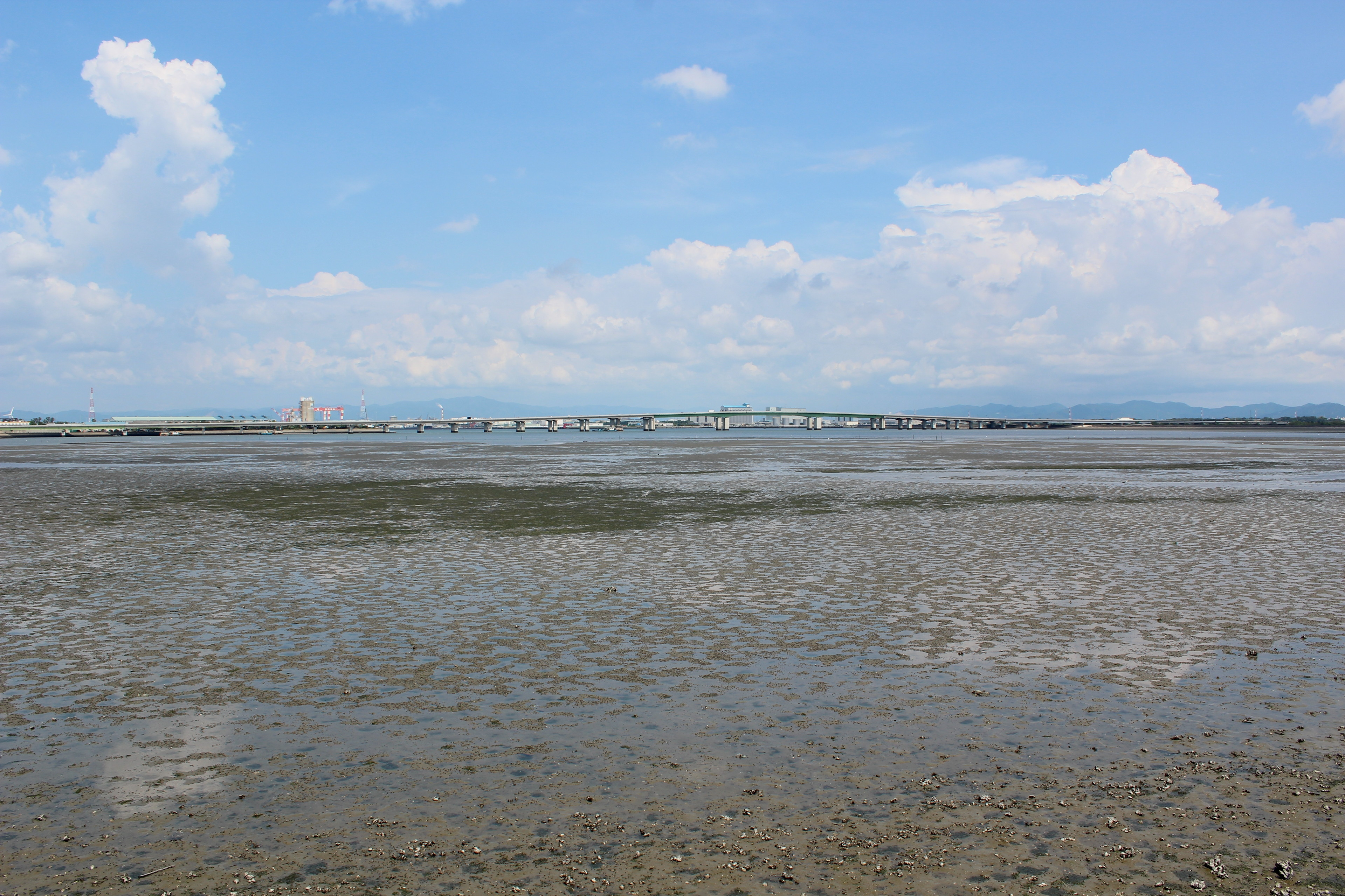 Shiokawa Higata from south